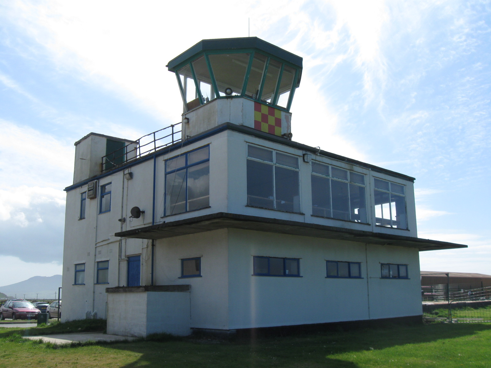 The Air Traffic Control Tower At Caernarfon Airport (ICAO: EGCK)